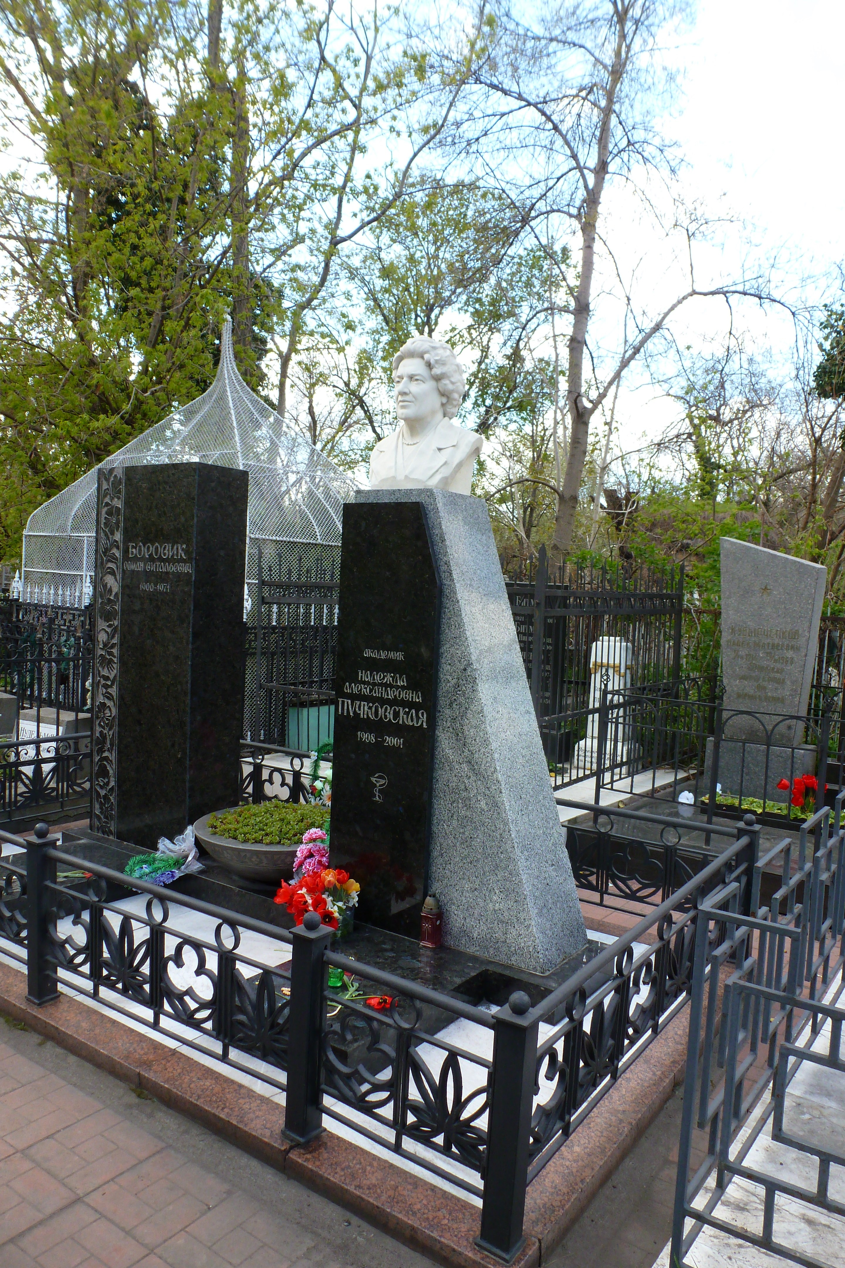 The tombstone of Nadezhda Puchkovskaya. The Second Christian Cementery in Odessa.